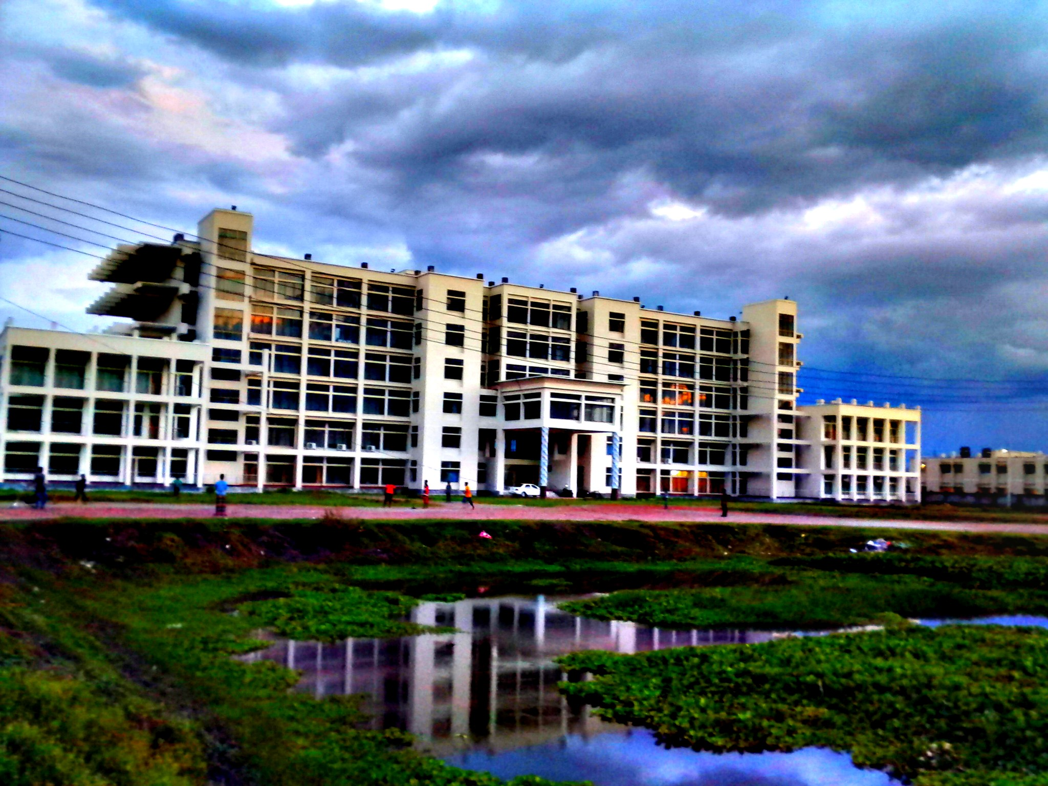 Permanent Campus of Jessore Medical College